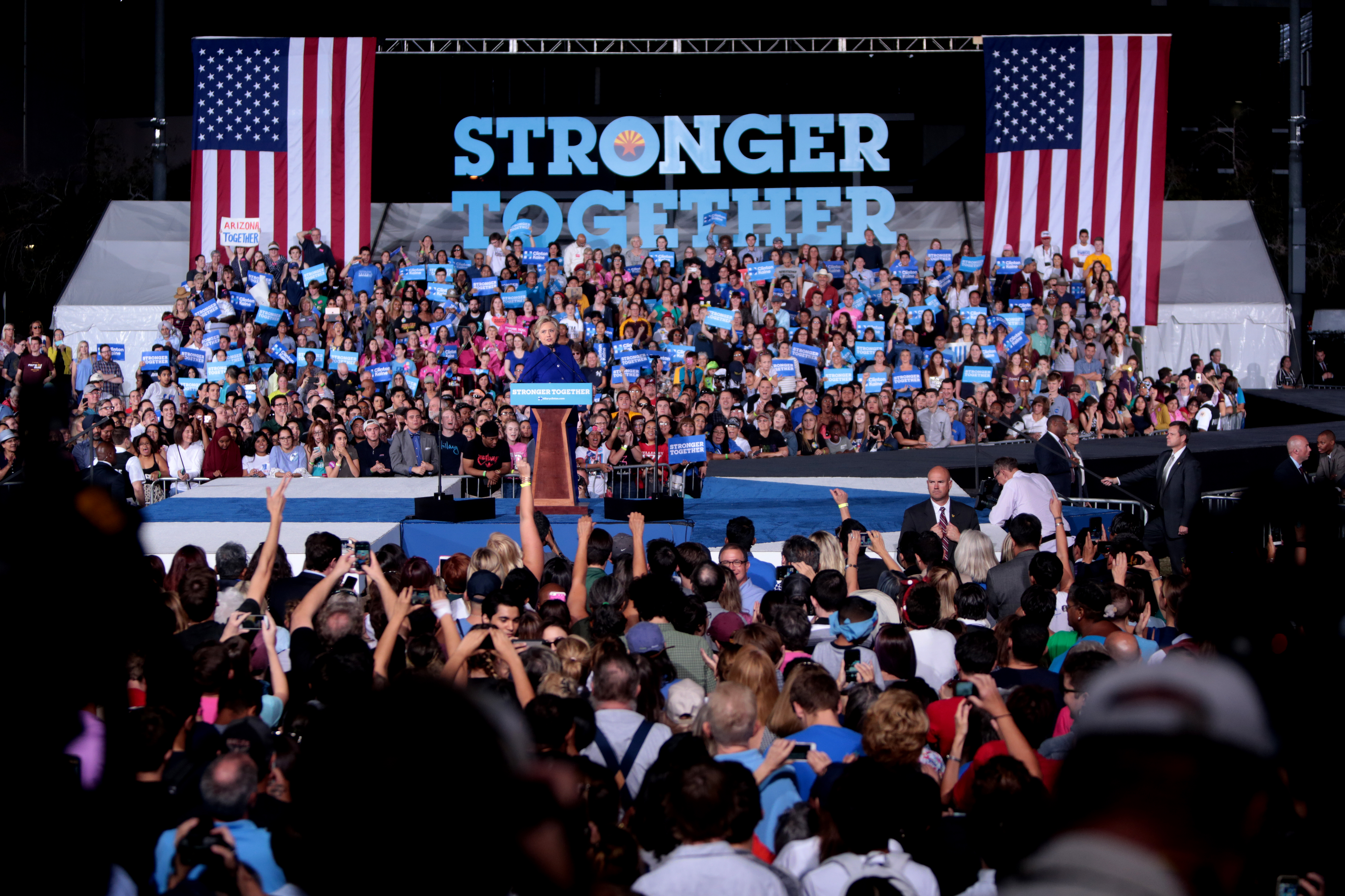 Former Secretary of State Hillary Clinton speaking with supporters at a campaign rally at the Intramural Fields at Arizona State University in Tempe, Arizona.